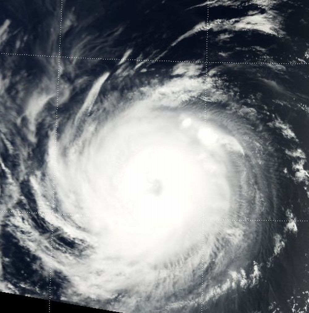 Hurricane Elida (2008), as seen from Terra Satellite at 2105Z on 2008-07-16